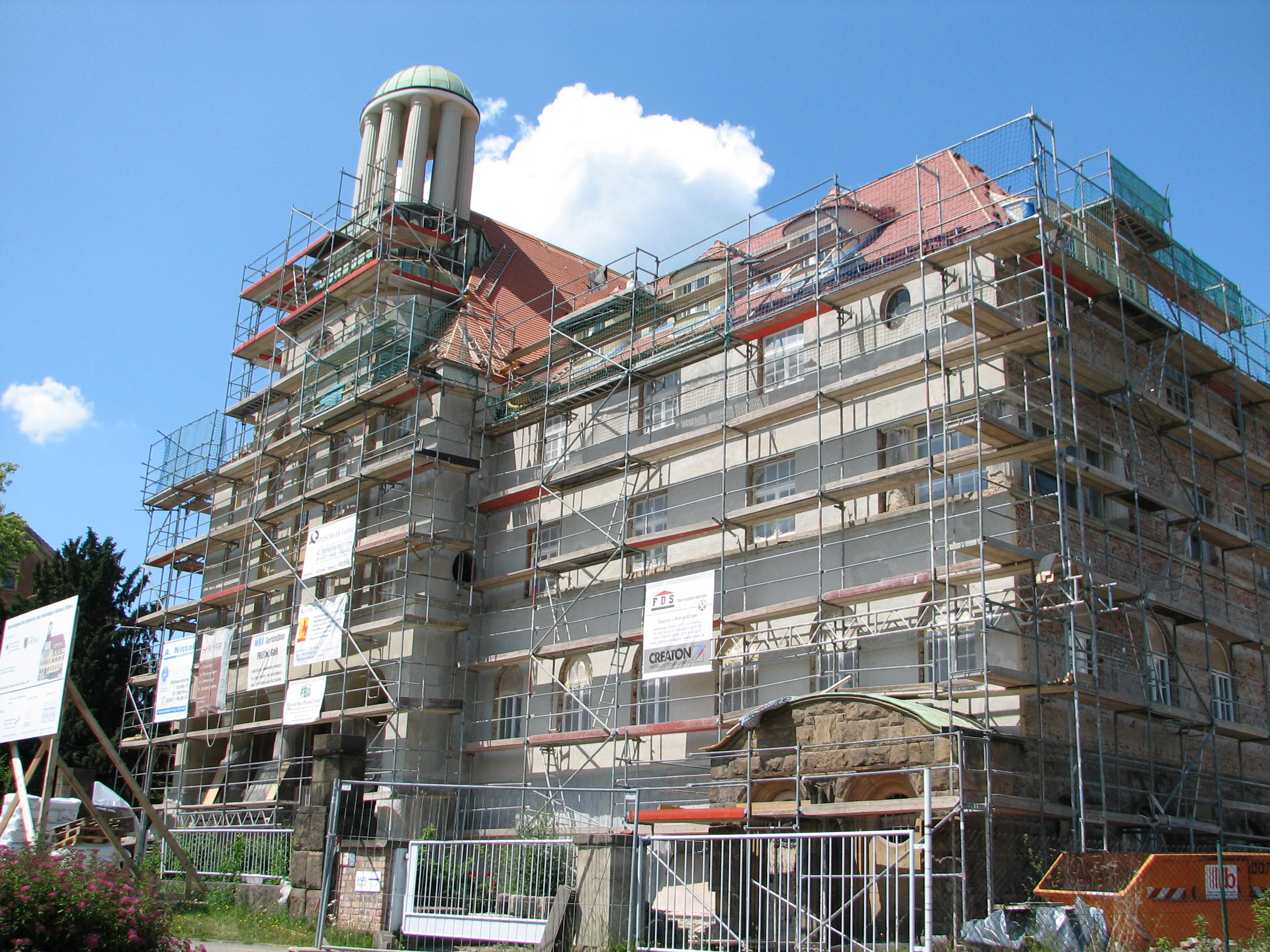 Town hall Doehlen, (subdivision of Freital). Planned by Rudolf Bitzan and built 1914–1915. On October 1, 1921 the communities Deuben, Doehlen and Potschappel signed a treaty merging into a new town, for which they adopted «Freital». 1952–1994 office of the district of Freital. 1994–2010 out of use. Picture shows reconstruction 2010–2012, which costed 2.4m €. Since 2012 office of the public housing association.